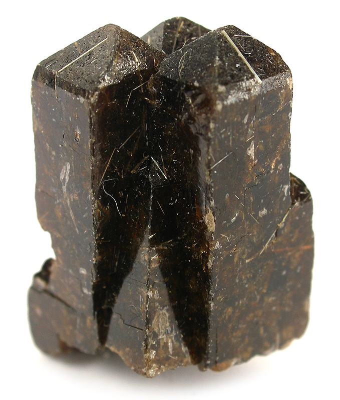 Rutile Locality: Novo Horizonte, Bahia, Northeast Region, Brazil (Locality at ) Size: thumbnail, 2.8 x 1.6 x 1.5 cm Xenotime with Rutile From a small find in January, this is a shockingly large and well-developed xenotime crystal with unusually good lustre , rich chocolate color, and unusually equant crystalllographic form. Furthermore, clusters are rare, of this species, particularly from Brazil. This crystal is complete all around, 360 degrees. As a final accent, we have inclusions of golden rutile in the xenotime, included 0.1 to 1 mm below the surface (though the photo makes it look like they are on the surface, that is an illusion - actually they are under a thin translucent layer of xenotime). A pocket the size of a basketball was hit, and I cherrypicked the choice specimens from this very surprising find!